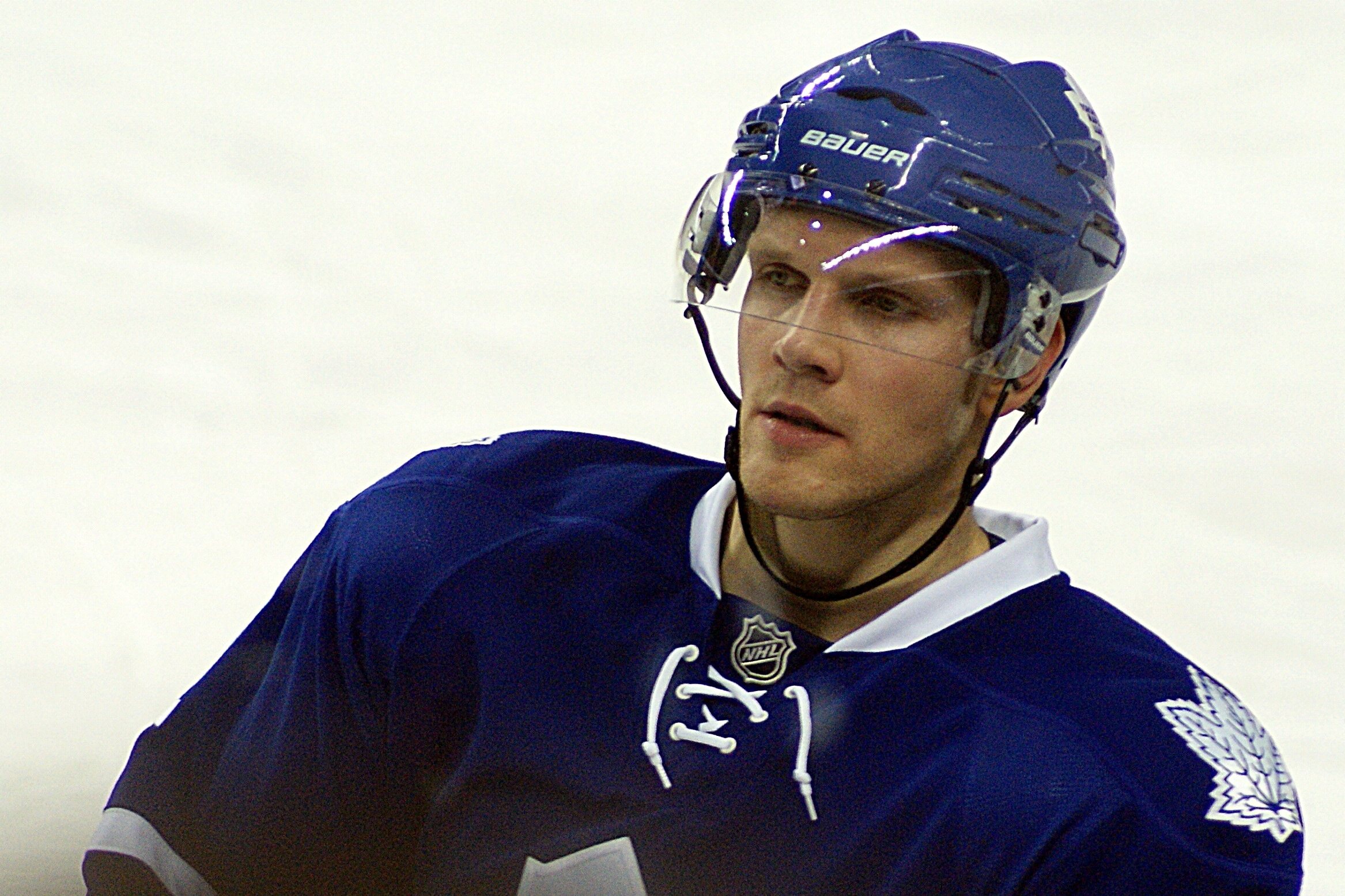 Fredrik Sjostrom as a member of the Toronto Maple Leafs on December 16, 2010.